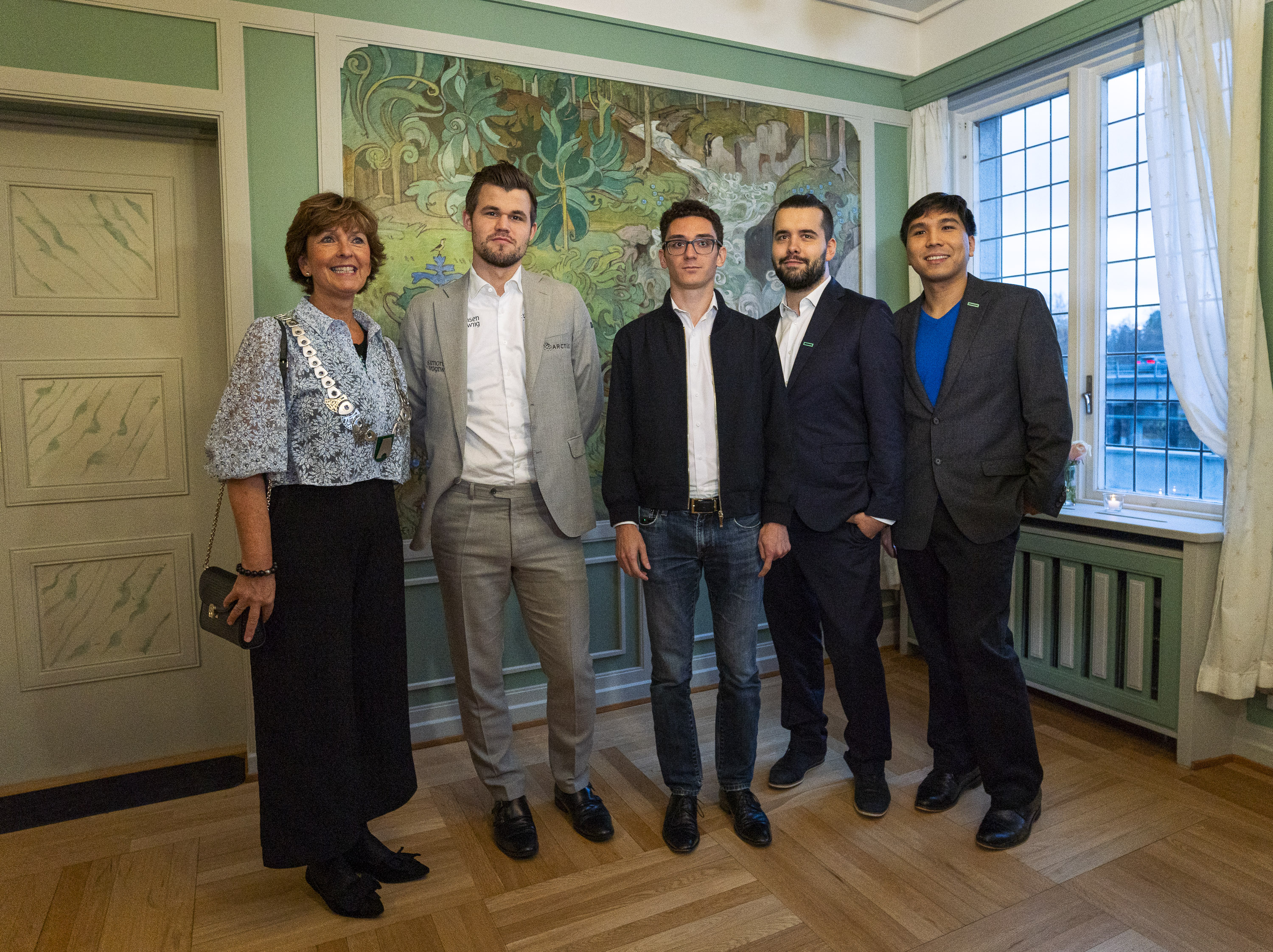 FIDE World FR Chess Championship 2019 - final four